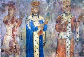 Royal portraits at Betania Monastery: George IV Lasha, Queen Tamar, George III (from left to right)